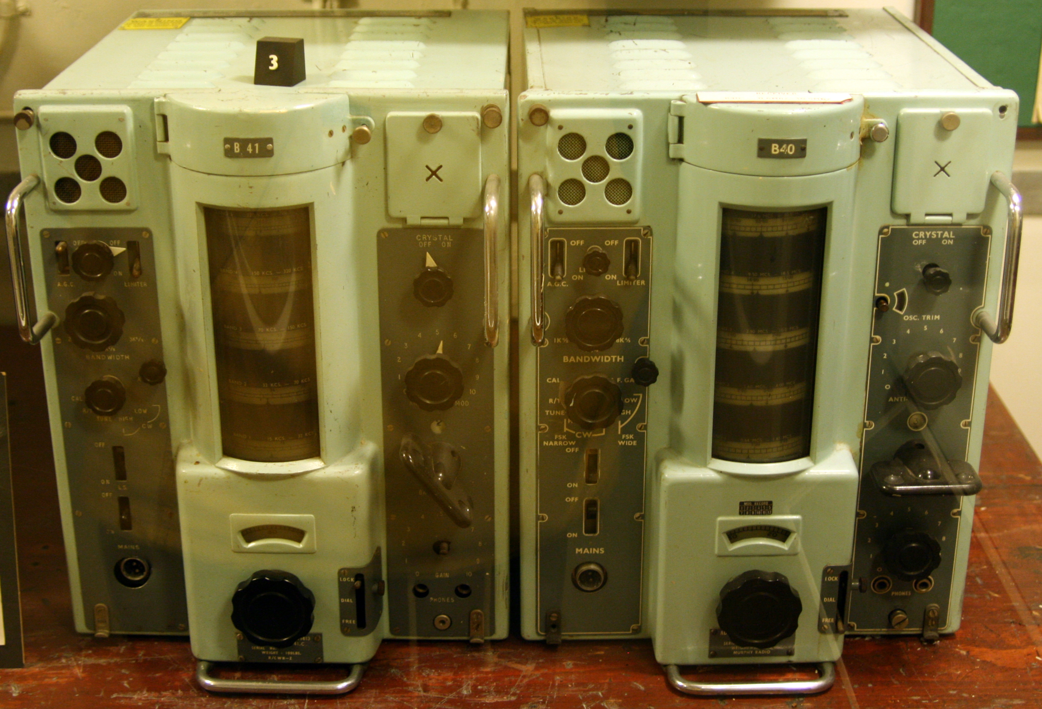 B40 and B41 HF communication receivers on HMS Belfast.